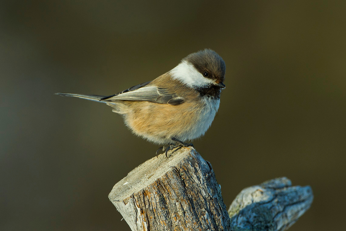 Siberian Tit Poecile cinctus lapponicus, Ivalo, Finland